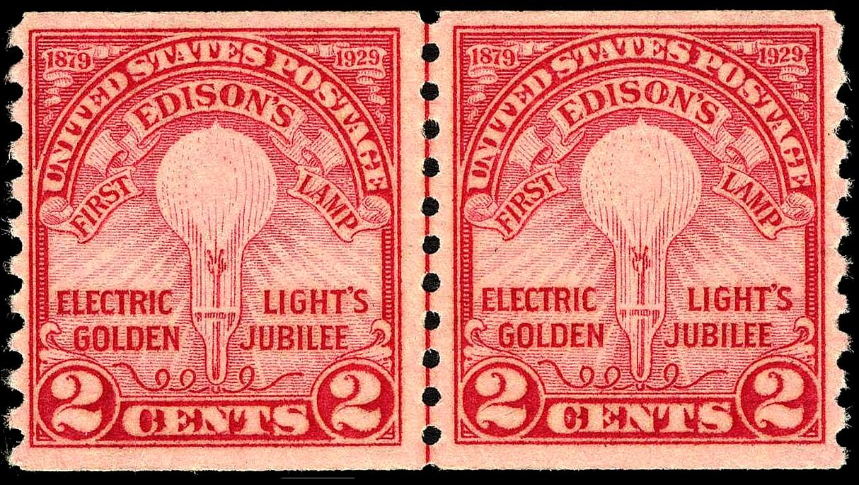 2 cent red, Electric Light Golden Jubilee stamp, coil line pair, 2-cents, 1929 issue